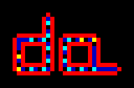 Langton's loops (parent and child) after replication